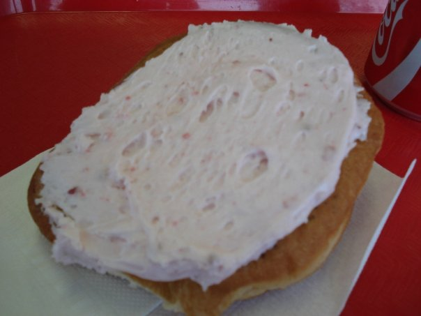 a local doughnut like pastry from Thunder Bay Ontario